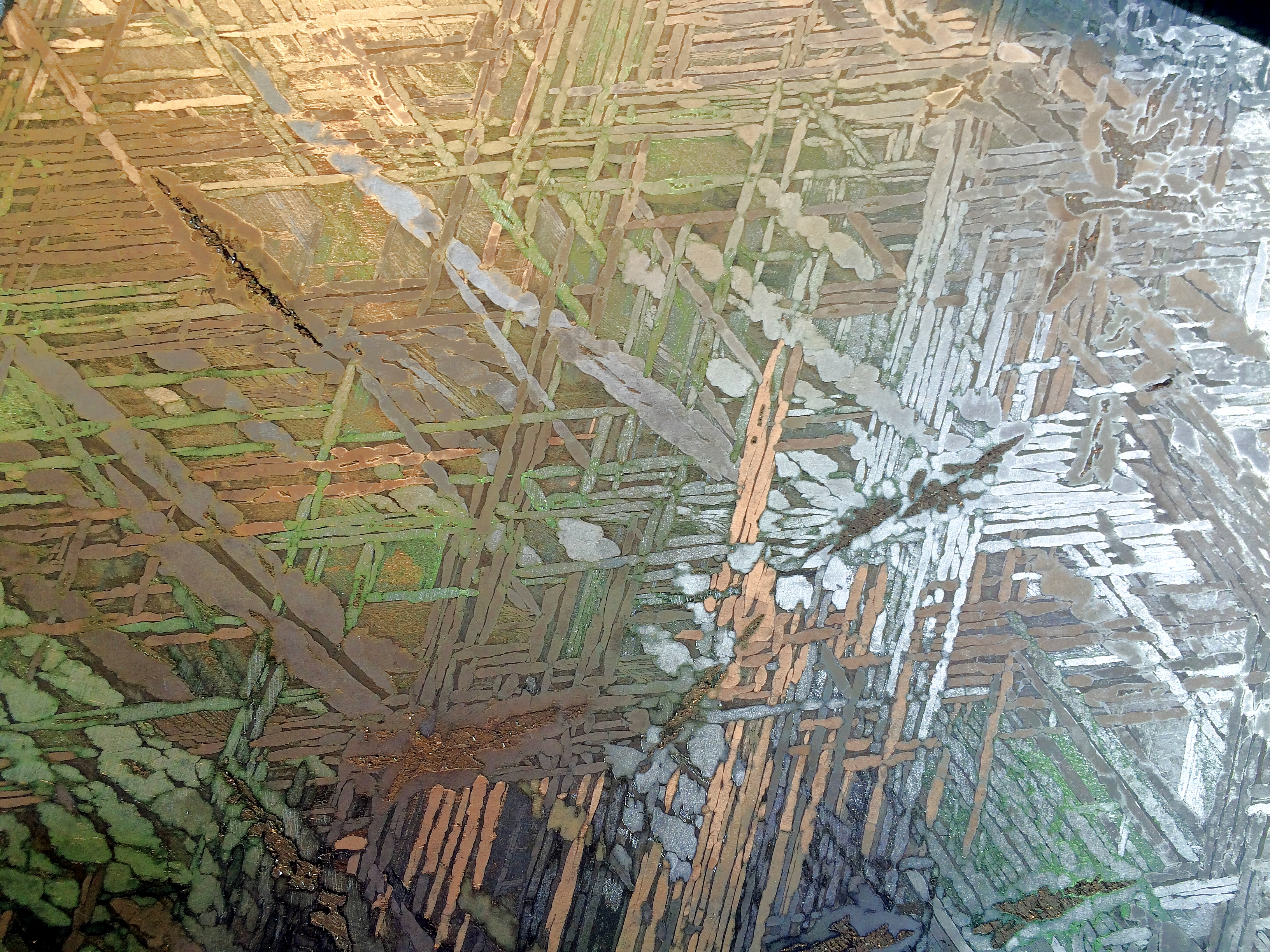 Widmanstätten pattern